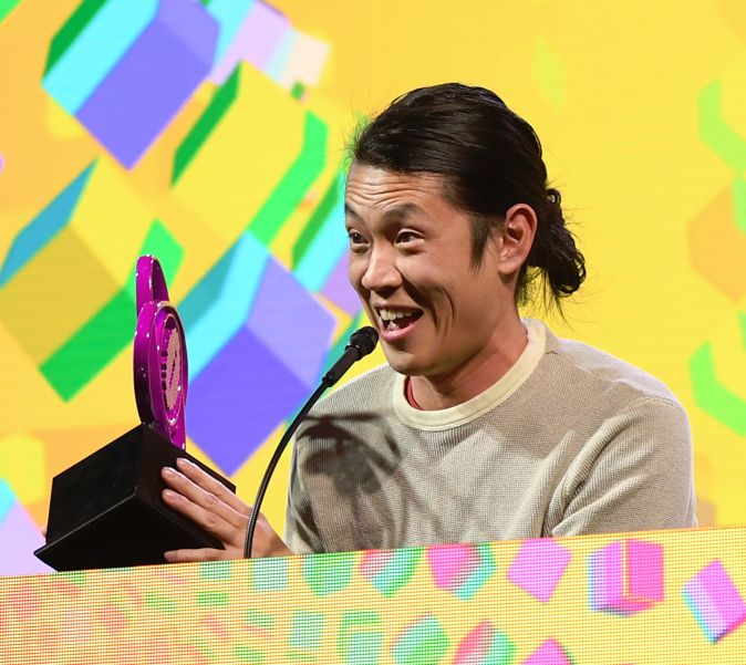 Brendon Chung of Blendo Games receiving the Seumas McNally Grand Prize at the 2017 Game Developers Choice Awards